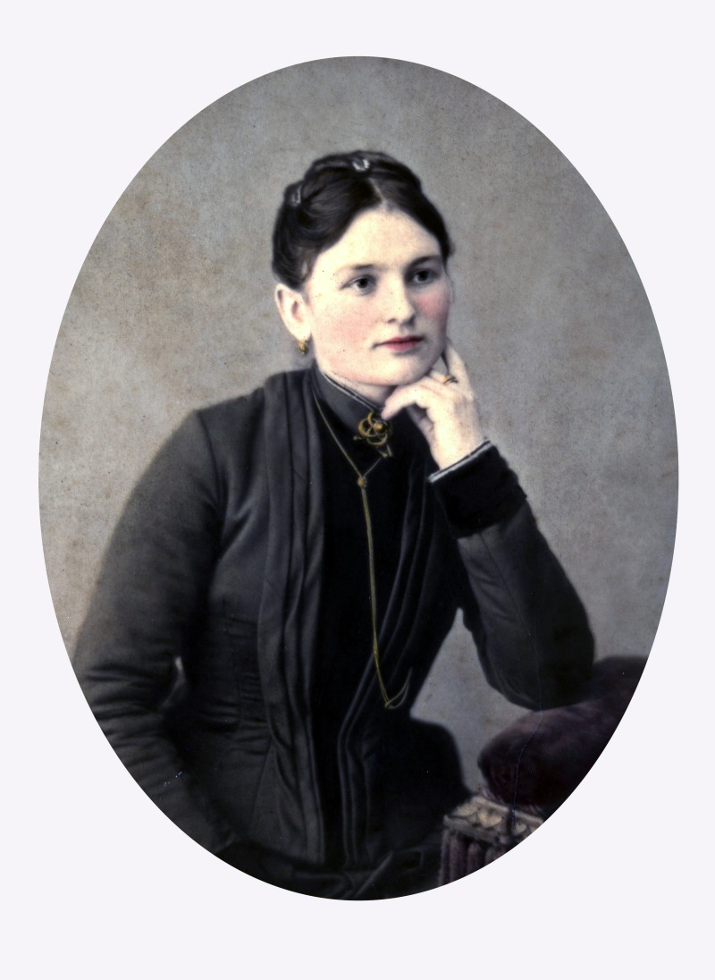 The original chromophotograph has deteriorated, due to yellowing of the paper. This picture is an attempt to reconstruct the original look of chromophotography, using modern Photoshop technology. First, both layers were color balanced to remove the yellow cast; then the bottom layer was unsharpened to simulate diffusion by the paper; and finally, the upper layer was made 30% transluscent. The original chromophotography rights has expired (Alexander Seik died 1905) and I release the additional changes to public domain. Not sure what is the proper licence to chose here (public domain self made or public domain old)